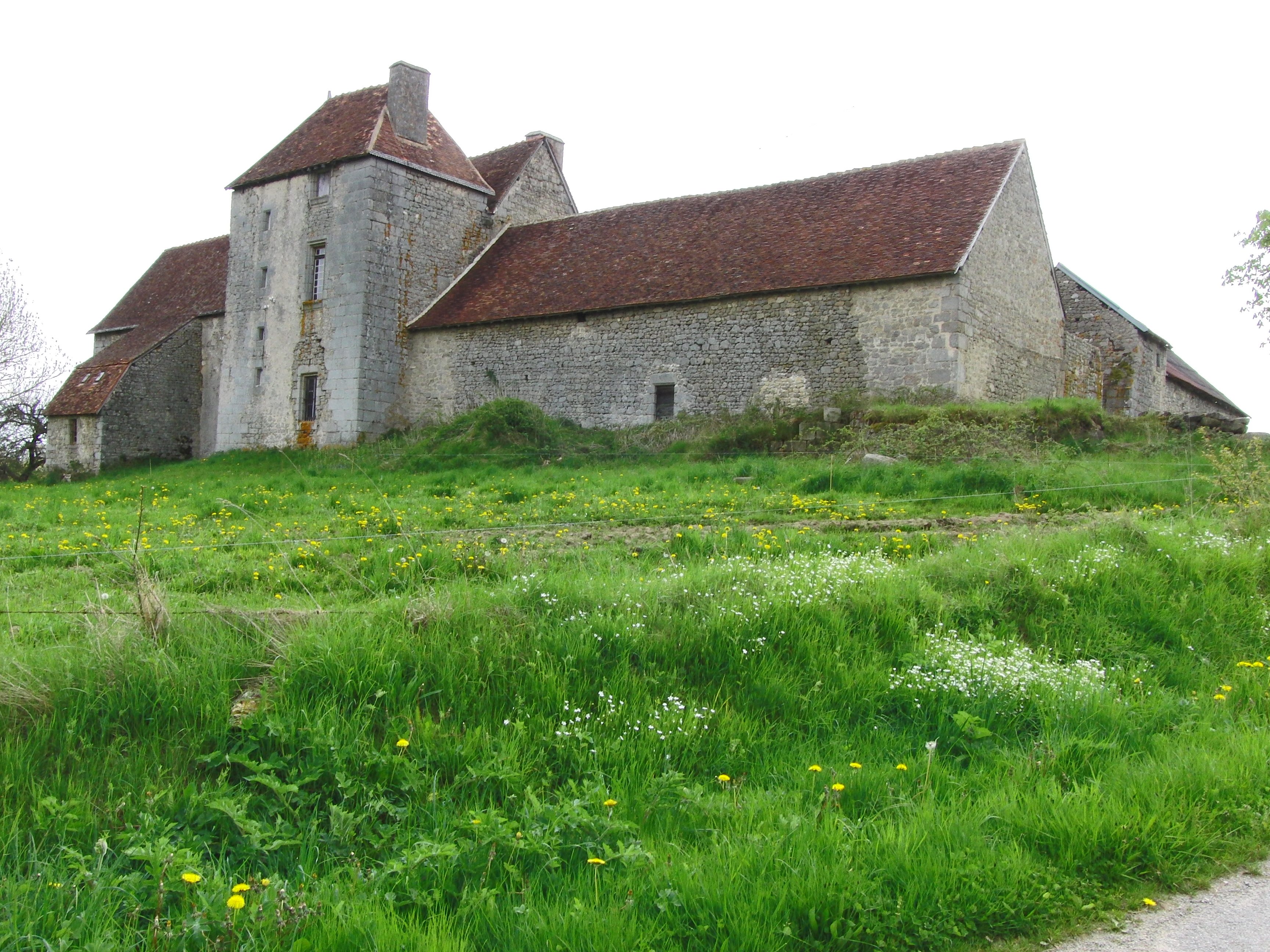 Mazeau castle in Peyrat-la-Nonière